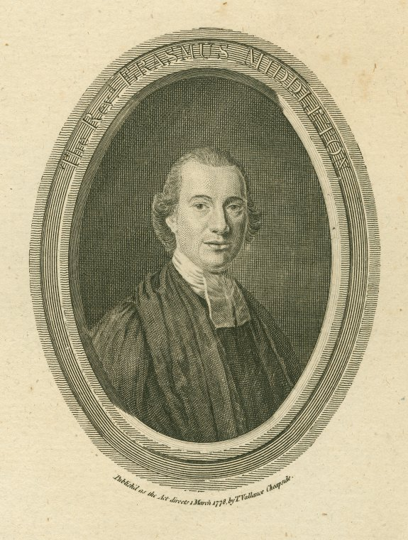 Portrait of Erasmus Middleton (1739–1805), English clergyman.